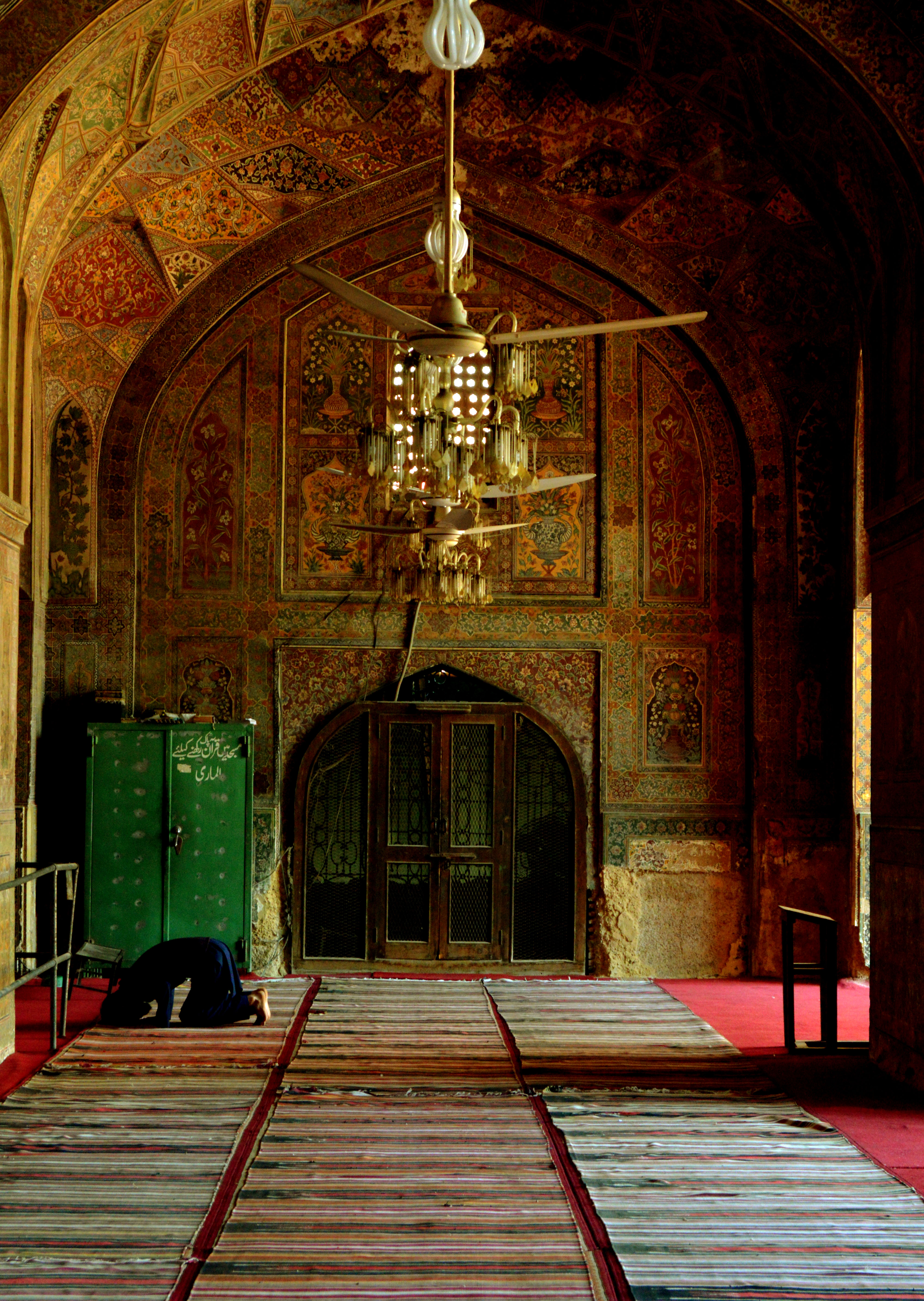 Wazir Khan Mosque This is a photo of a monument in Pakistan identified as the PB-100